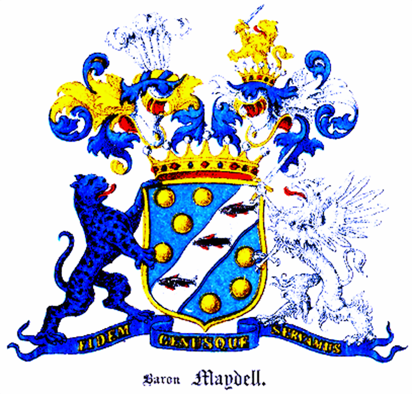 Coat of Arms of Maydell family